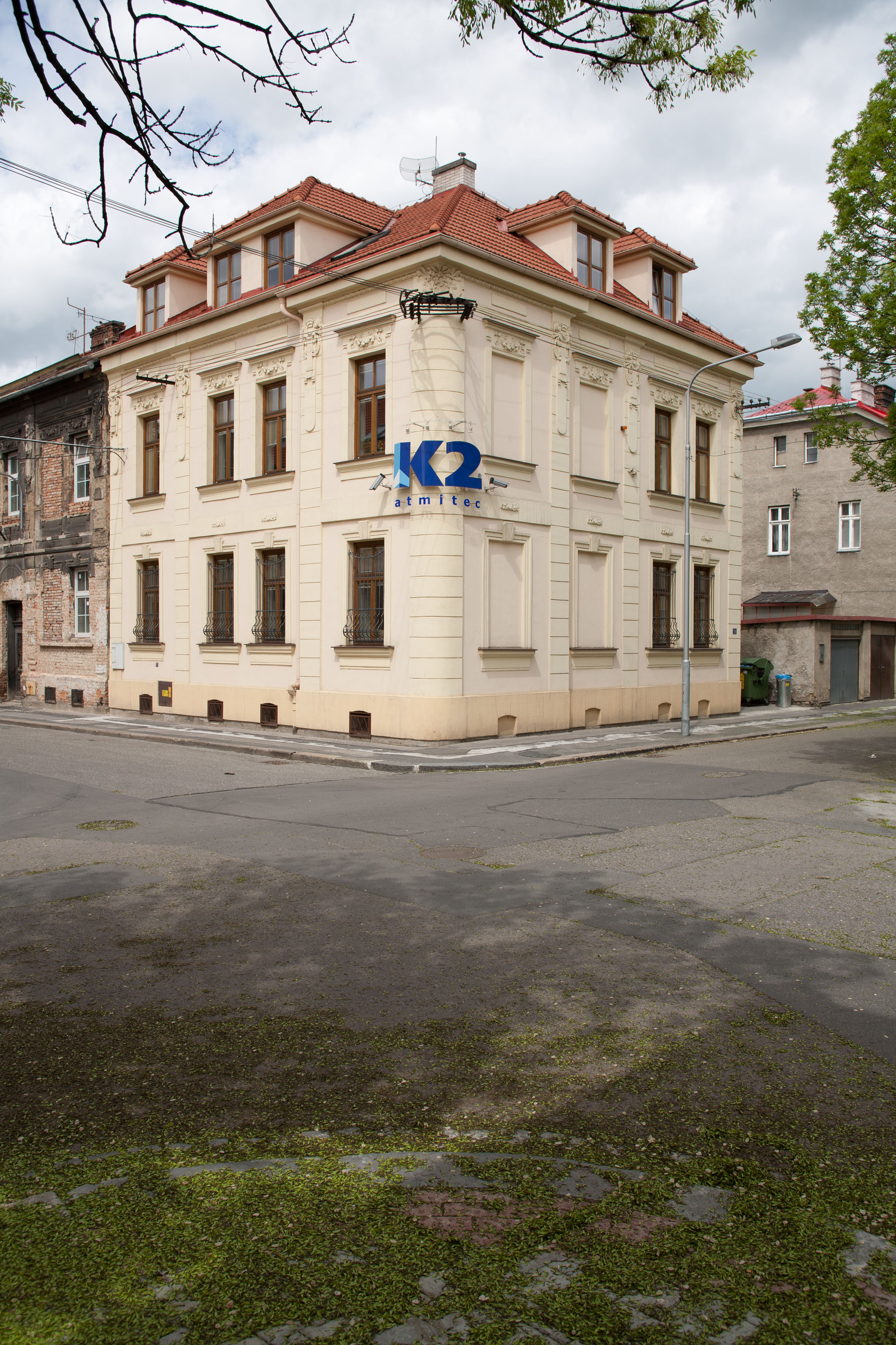 Old headquarters of K2 atmitec s.r.o.